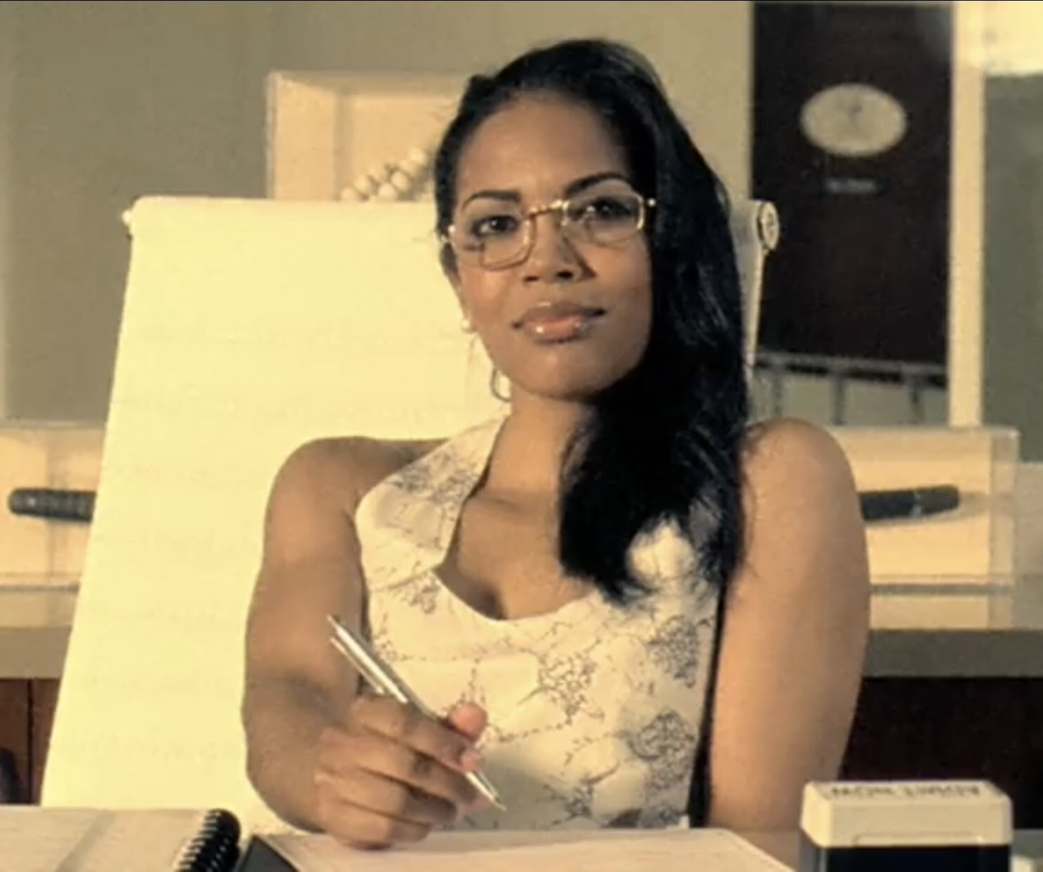 Cha Cha in Malibu in 2010